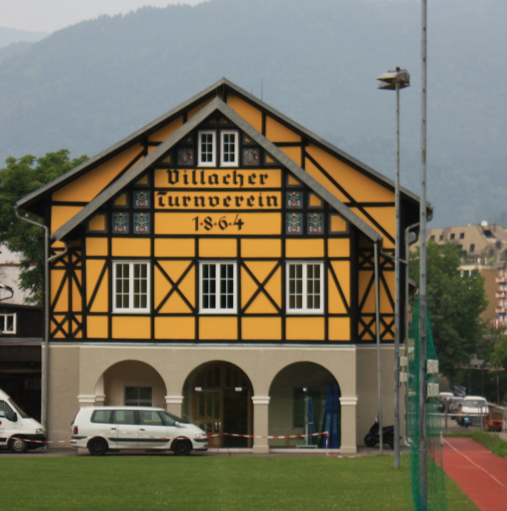 Turnverein Street:Draulände Community:Villach